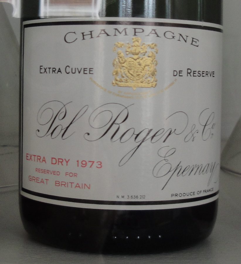 Pol Roger Champagne vintage 1973, labelled for the UK market. A black border was added to the UK labels following the death of Sir Winston Churchill, Pol Roger's favorite customer.